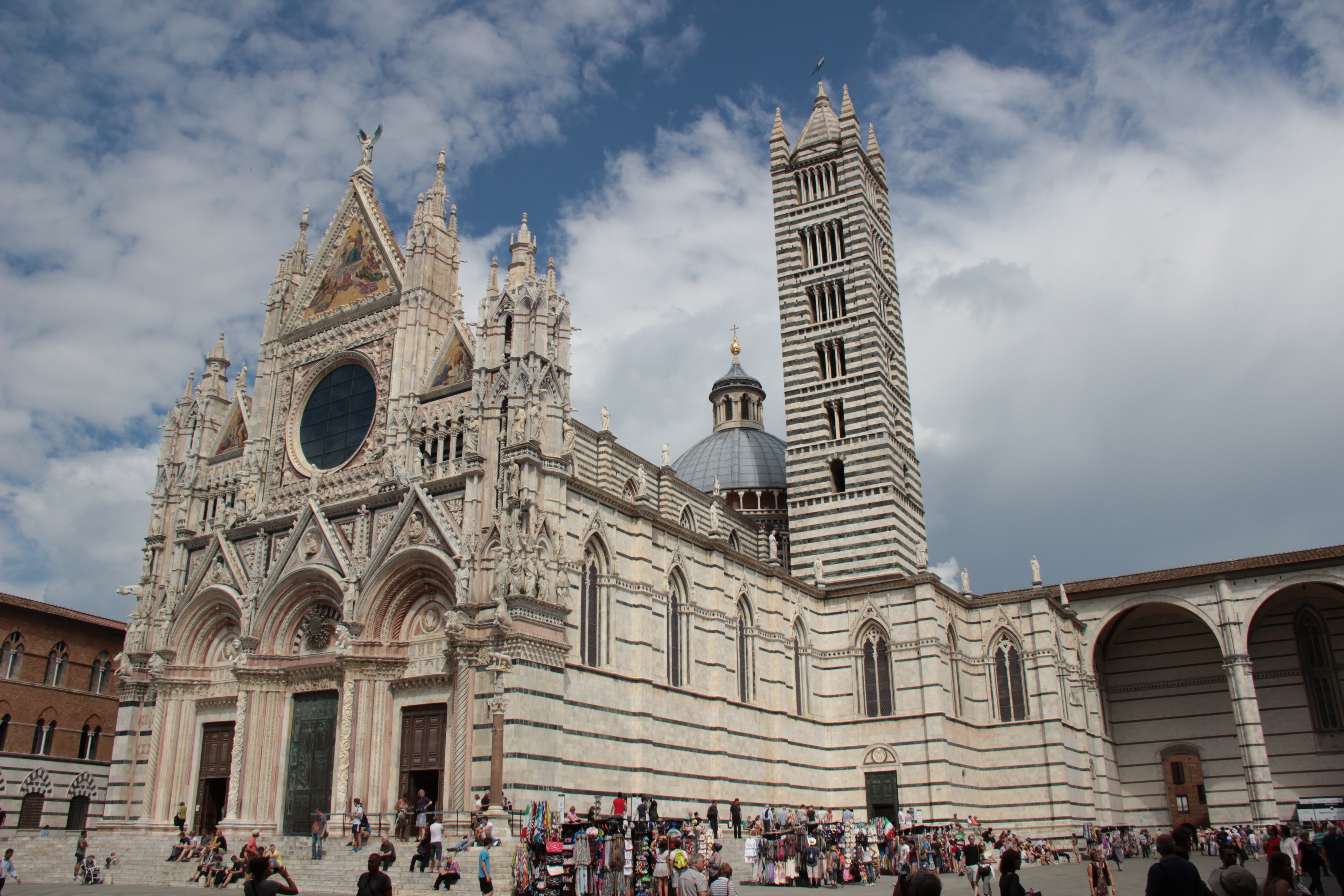 siena18